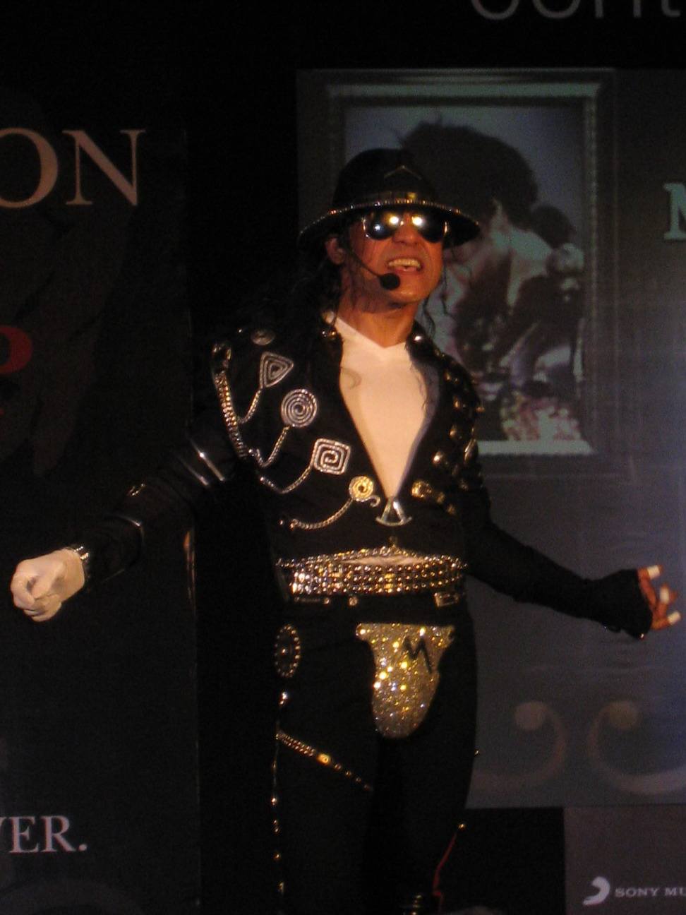 Michael Tang at Central World (Michael Jackson Tribute)